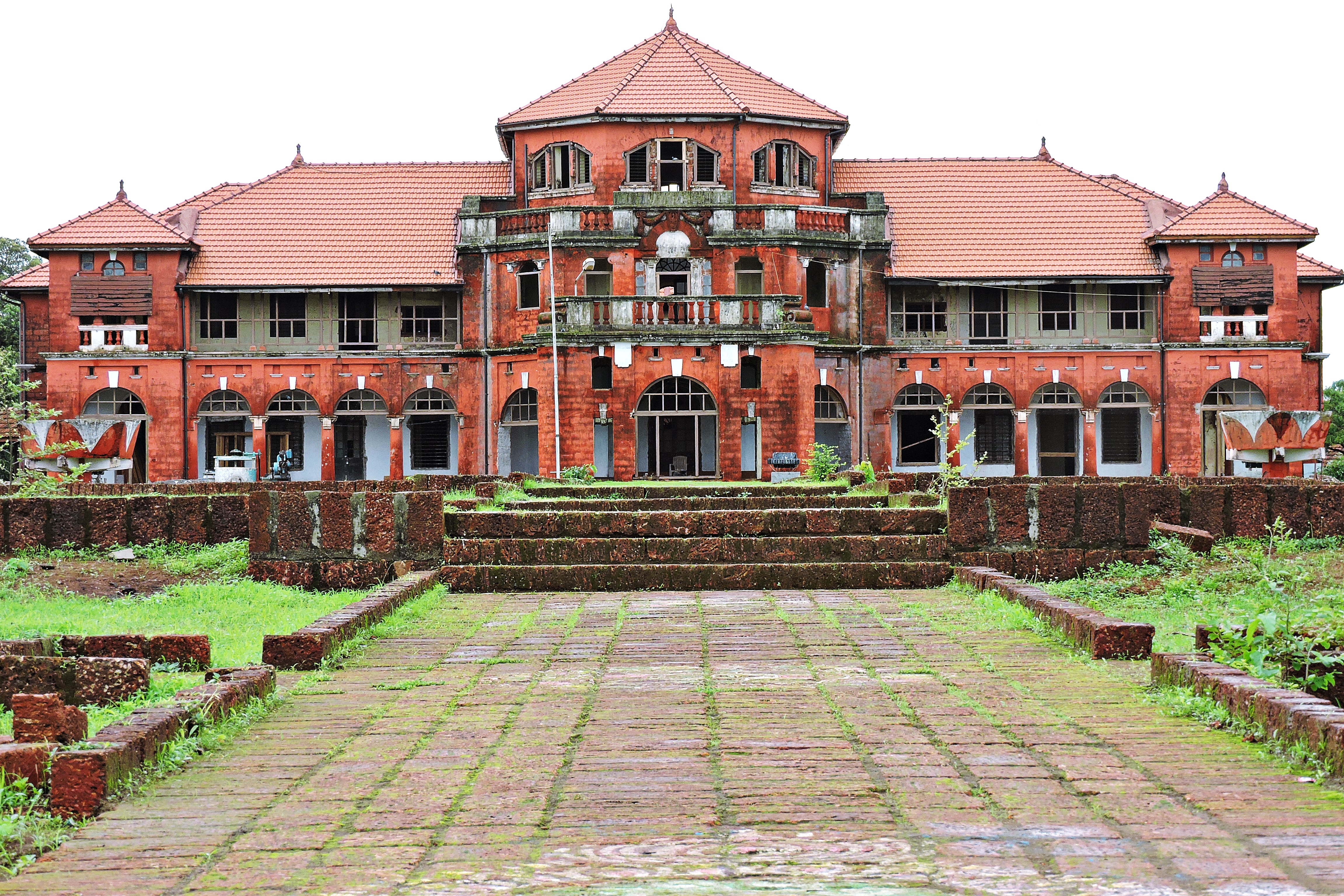 Thiba Palace is in Ratnagiri city is historical building . When british bring the King Thiba from Bramahadesh, they shifted him in Ratnagiri and for the King Thiba the palace is built. Thiba king go to the palace for live in the year of 1911. After the death of king Thiba it will be taken by british again and it will be official of british officers.